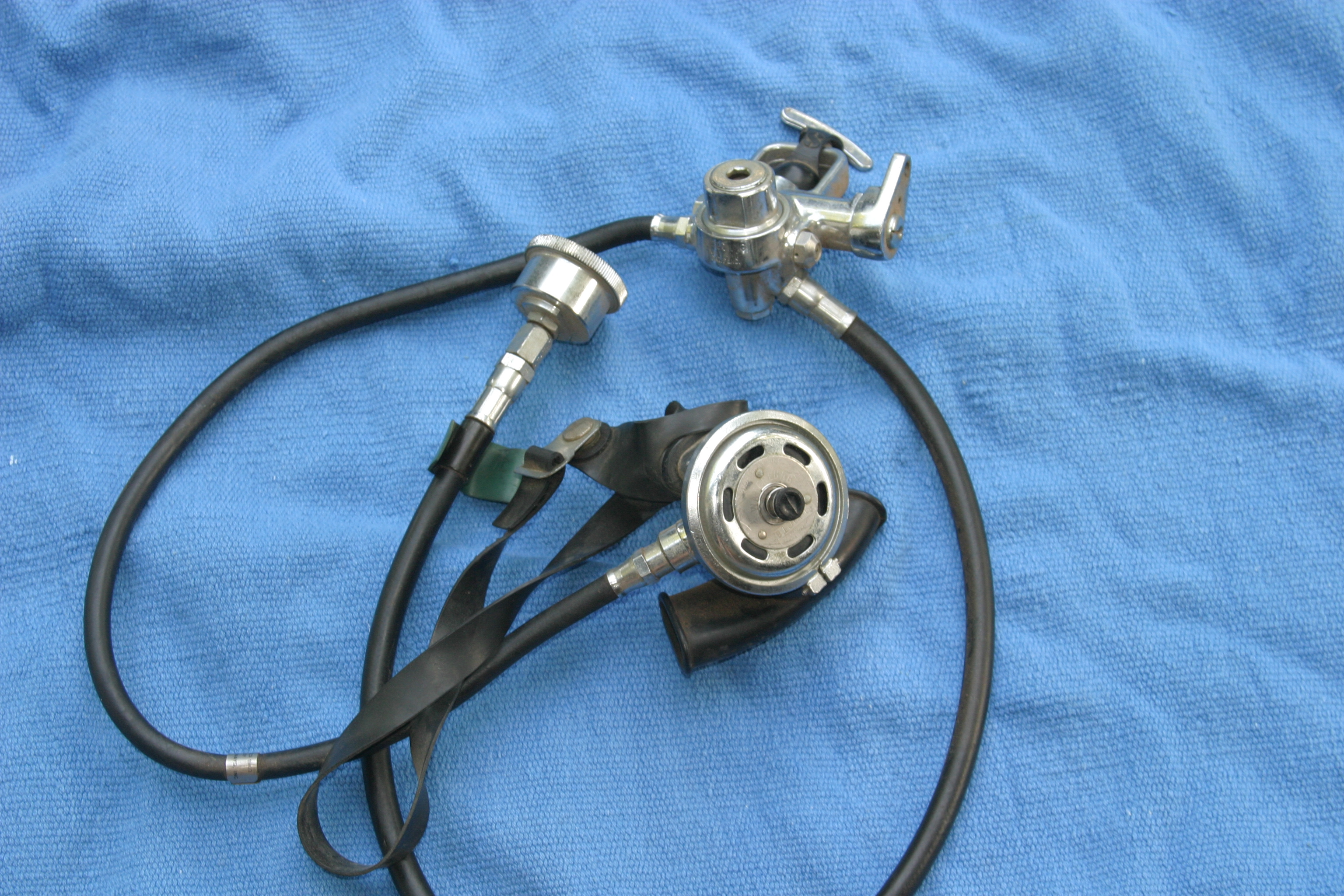 Sportsways "Waterlung" Regulator from 1960 with "J" Valve incorporated in first stage block